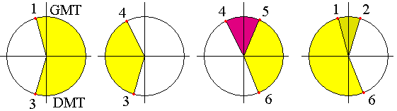 crank diagram of four stroke engine